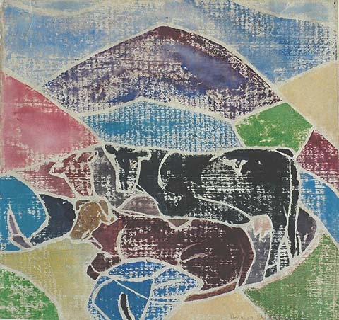 Cows Grazing in the Dunes near Provincetown by Agnes Weinrich, white-line woodcut, 10 x 10.5 inches